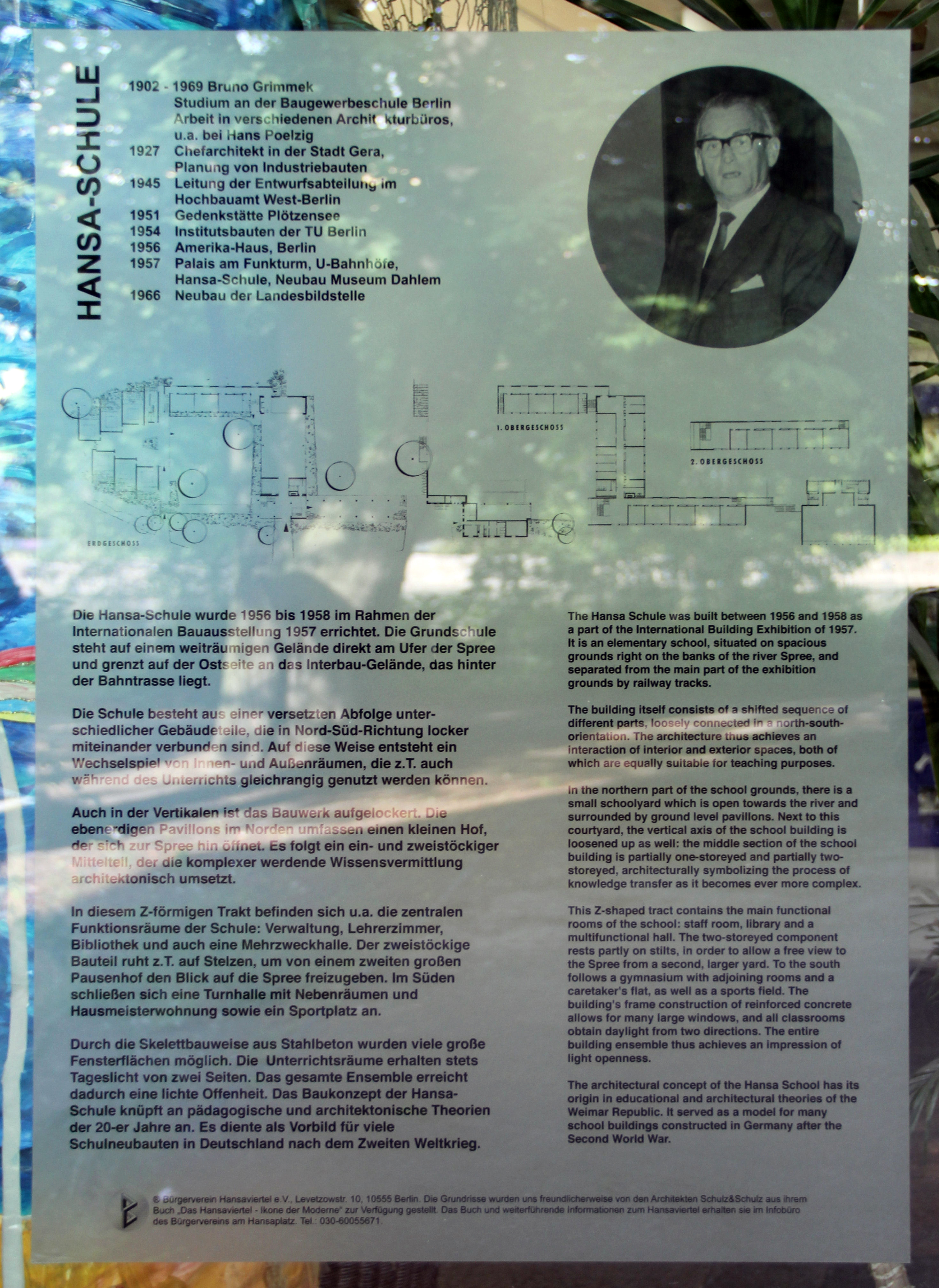 Memorial plaque, Bruno Grimmek, Lessingstraße 5, Berlin-Hansaviertel, Germany